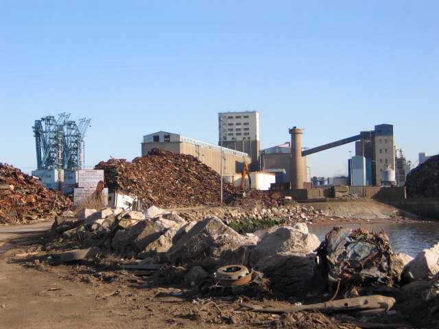 Gladstone Dock The north-western corner of Gladstone dock, viewing the outer sea wall. A massive scrap metal recycling operation goes on here, and loading onto ships for transport overseas.